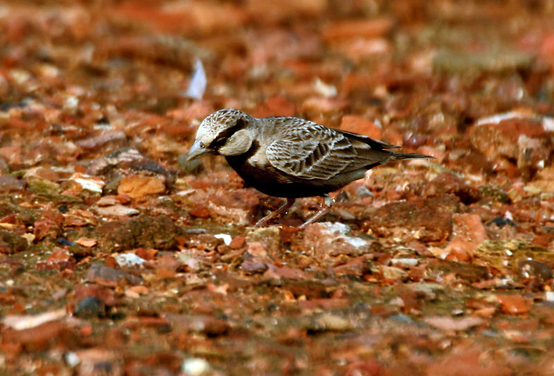 Ashy-crowned Sparrow Lark Eremopterix grisea at Narendrapur near Kolkata, West Bengal, India.